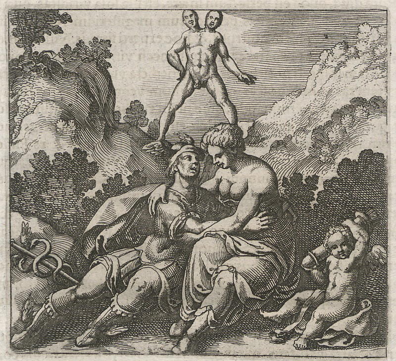 Original image description from the Deutsche Fotothek Theosophie & Alchemie